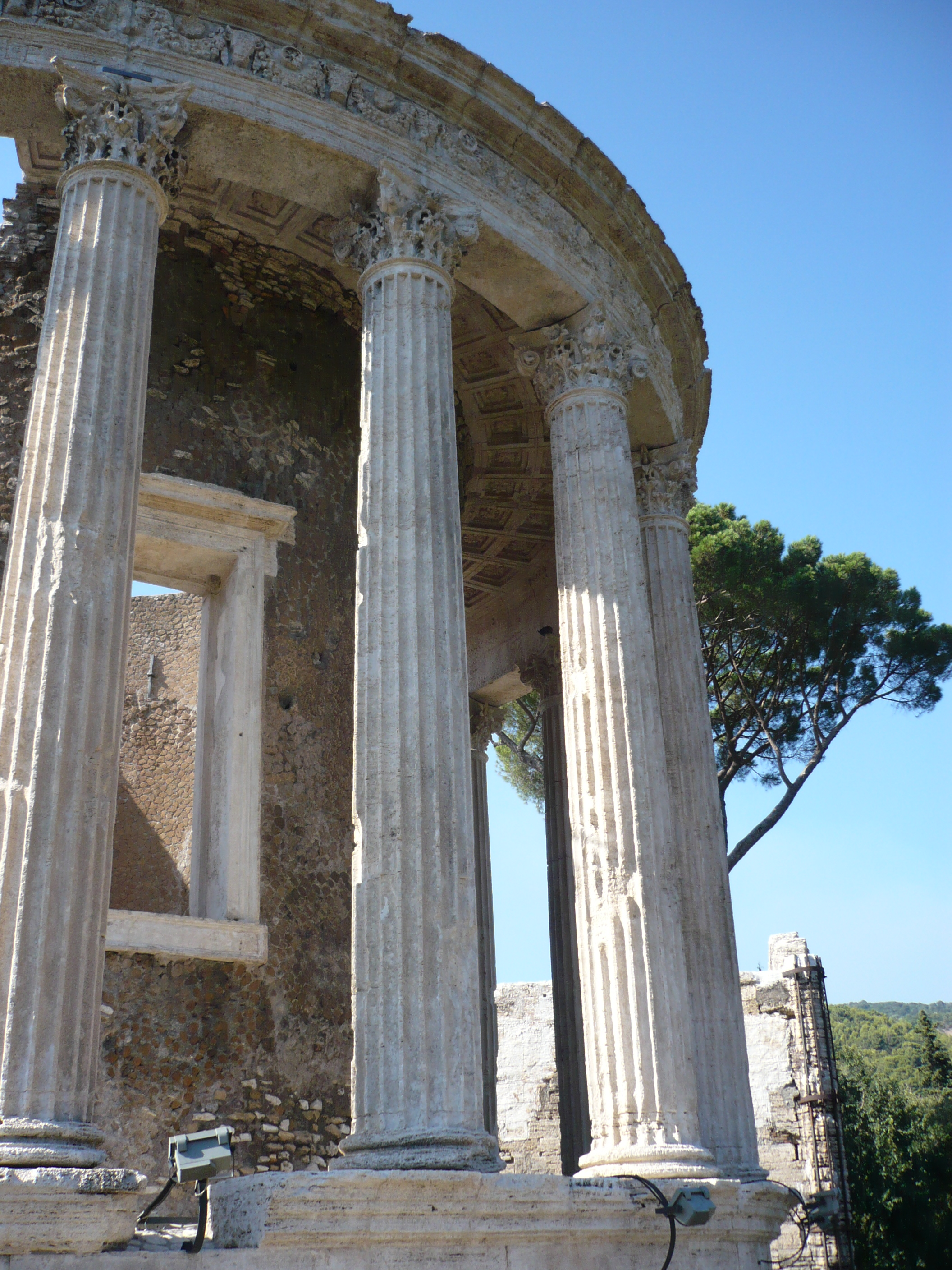 Temple of Vesta in Tivoli, Italy.